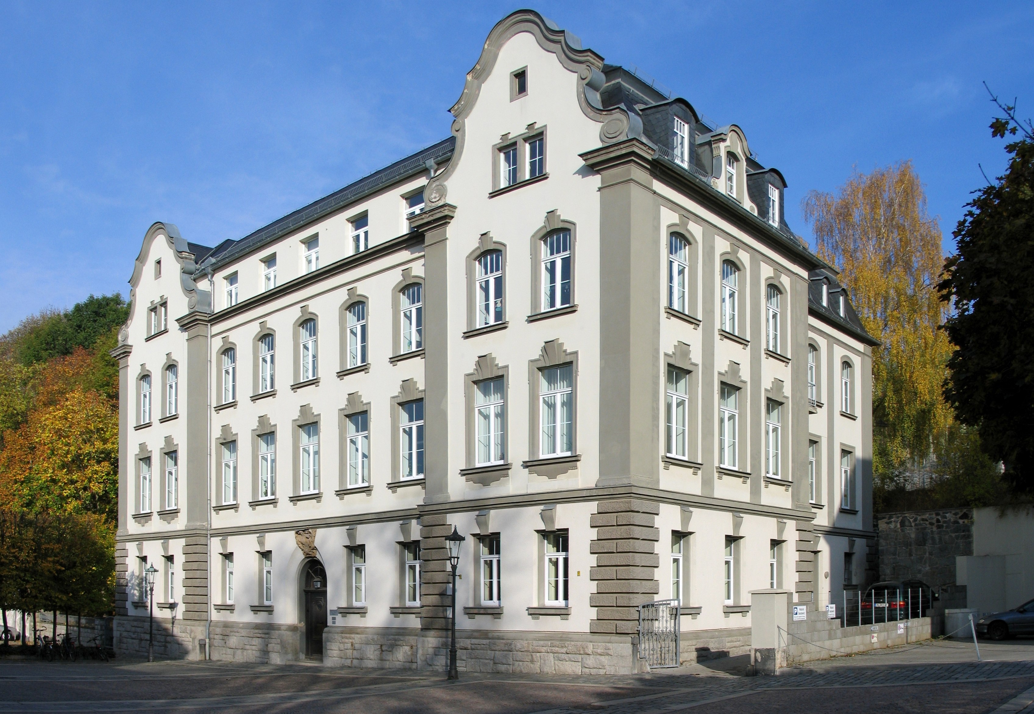 The Vogtlandkonservatorium in Plauen.